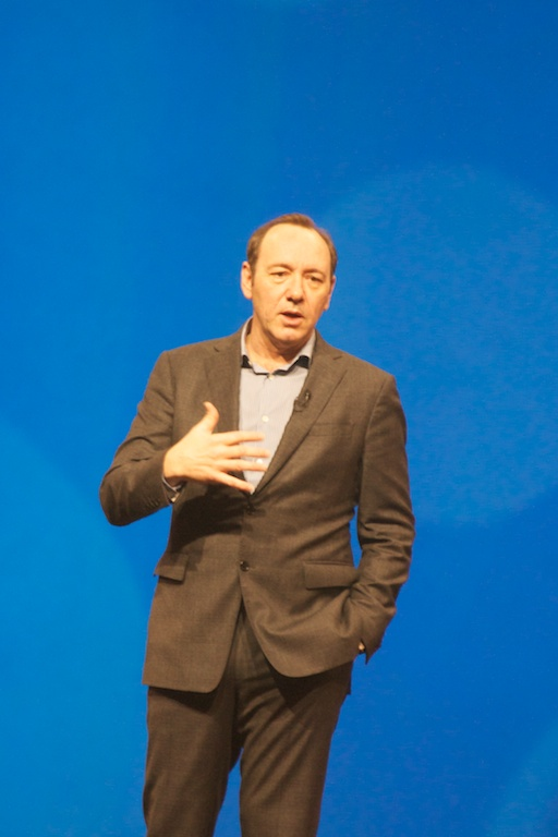 Kevin Spacey